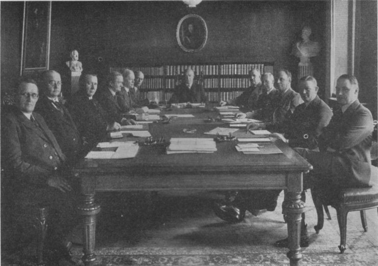 Second cabinet of Per Albin Hansson 1936-1939